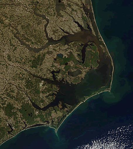 Cropped satellite photo to show North Carolina's Outer Banks